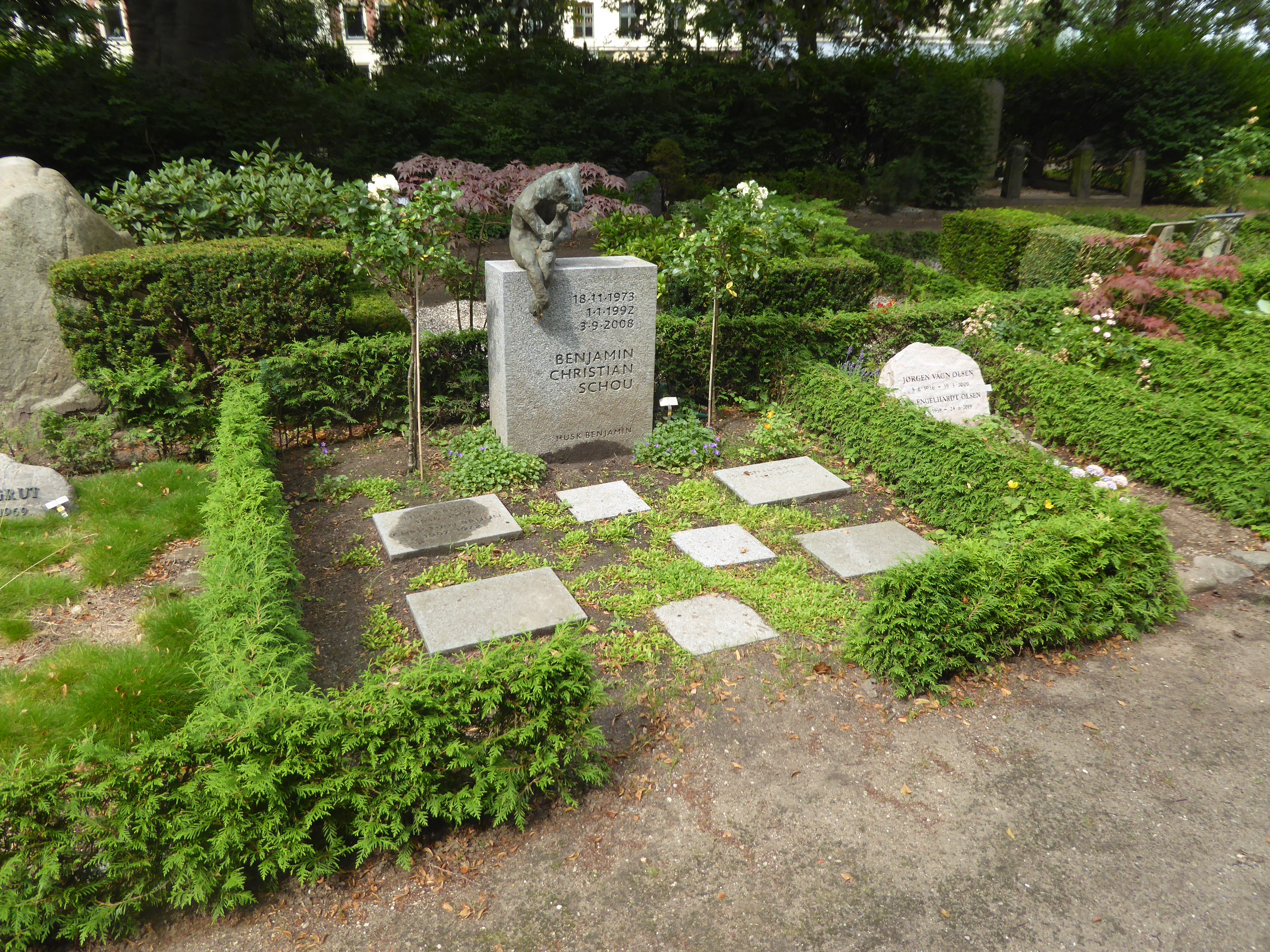 Grave of Benjamin Christian Schou (1973-2008) at Holmens Kirkegård in Østerbro in Copenhagen. He was the subject of a violent arrest at the new years night 1992. He lost his consciousness due to this and never recovered. The store is known as the Benjamin case (Benjamin-sagen).